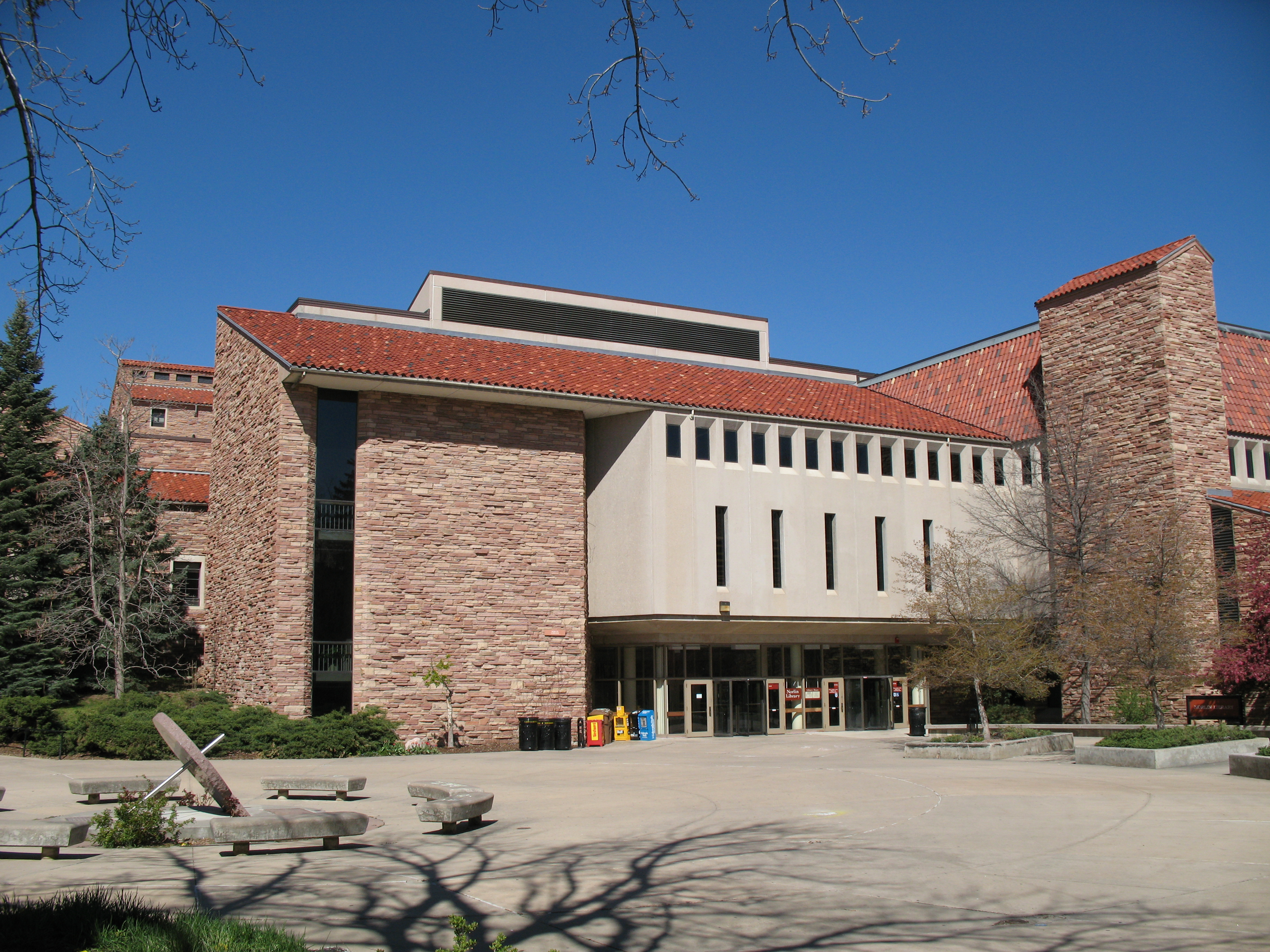 Norlin Library, rear entrance, on University of Colorado at Boulder campus